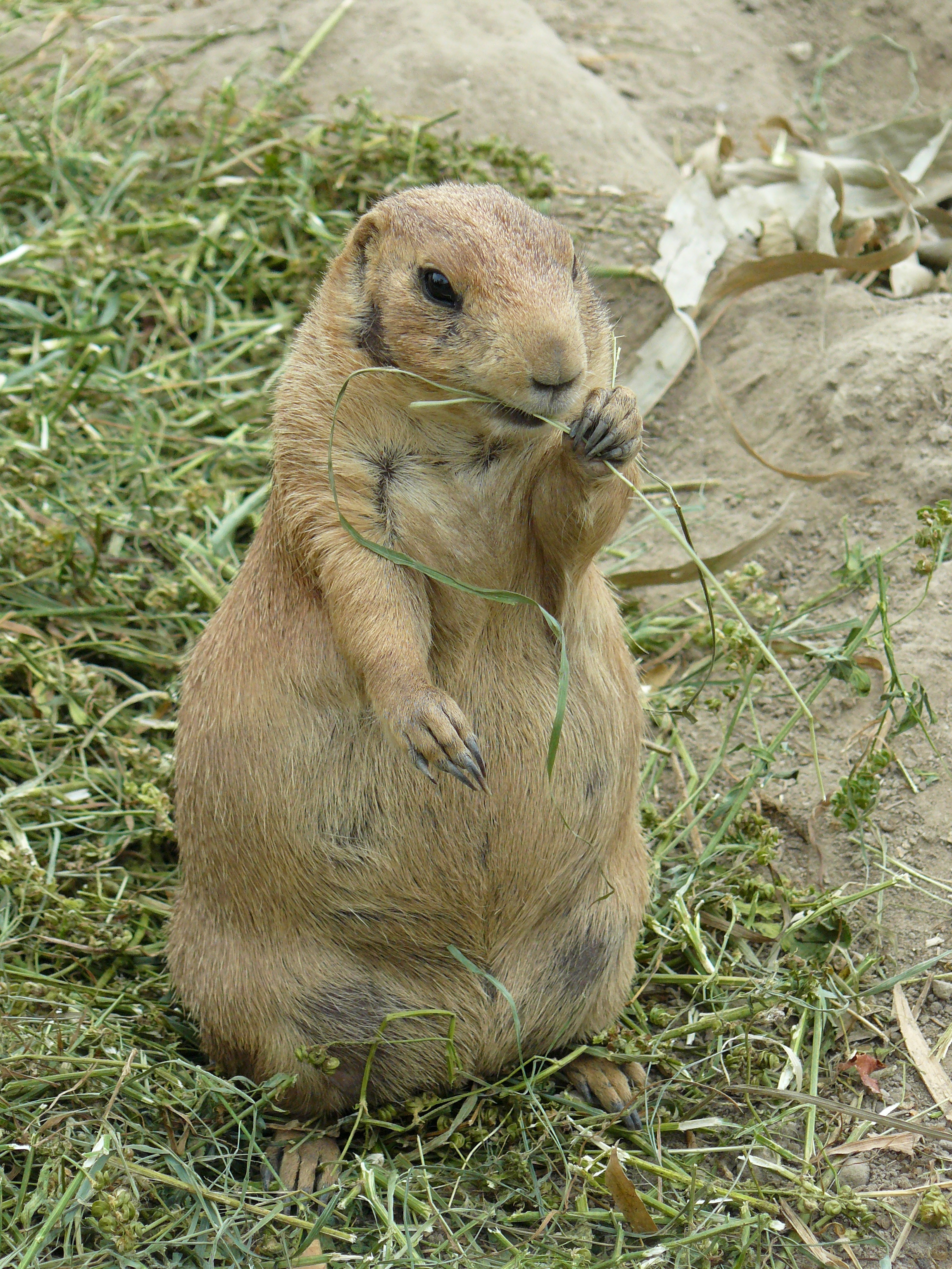 Taken in the Zoo, Budapest